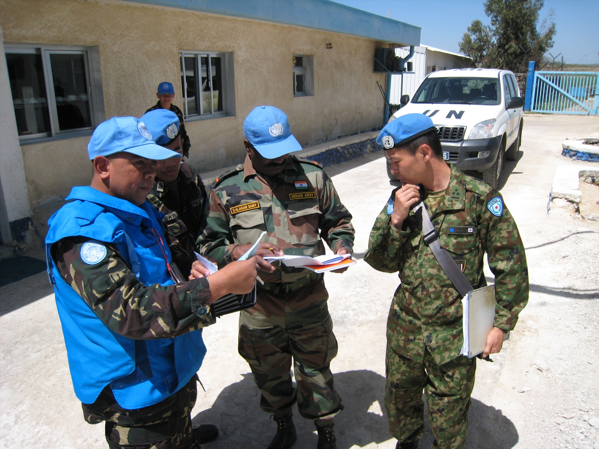 Title 24.4フィリピン大隊陣地の車両状況について書類報告を受ける金山１尉_R.JPG Album 国際平和協力活動等（及び防衛協力等） 国連兵力引き離し監視隊